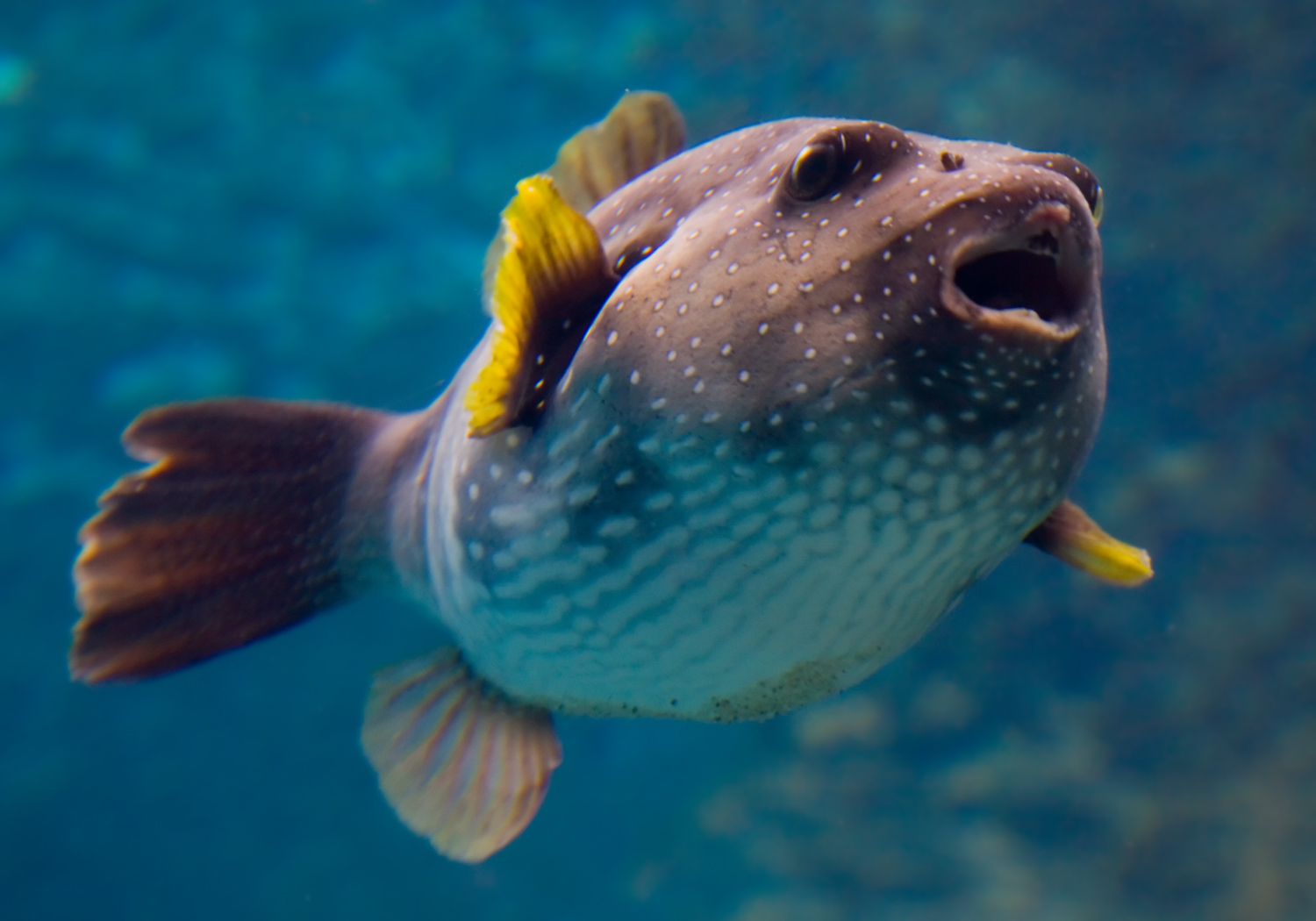 Arothron hispidus (white-spotted puffer)